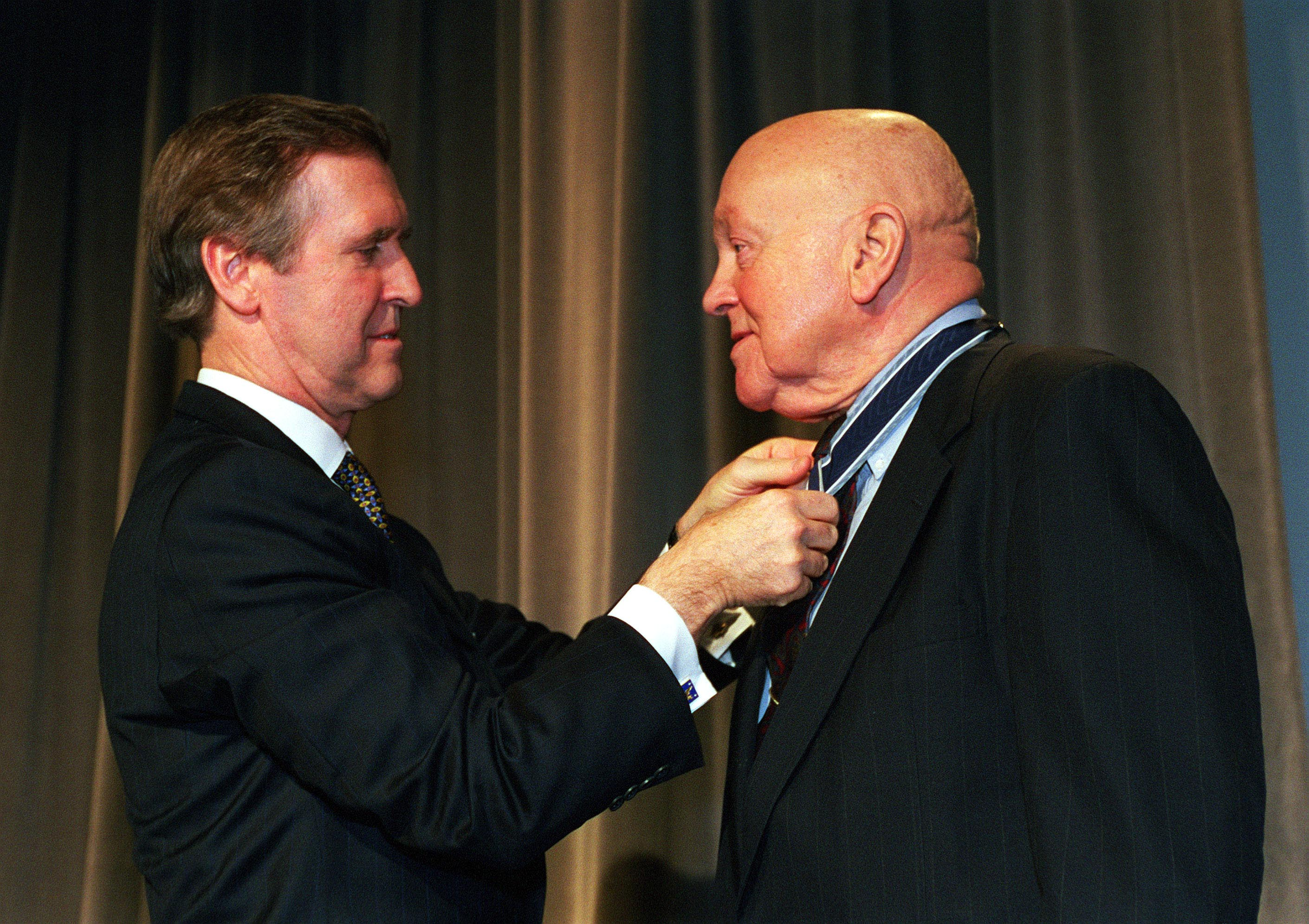 Secretary of Defense William S. Cohen (left) affixes the ribbon holding the President's Medal for Distinguished Federal Civilian Service around the neck of David O. Cooke, director of administration and management for the Department of Defense at the Pentagon. The award, the highest attainable for civilian federal service, was presented in recognition of exceptionally outstanding service to the nation throughout a distinguished career spanning more than 50 years. The citation accompanying the highest federal civilian service award stated that Cooke directly supported 12 secretaries of defense and managed the most complex administrative and management issues confronting the Pentagon. Cooke, known as "Doc" because of his initials, has long held the unofficial title of "Mayor of the Pentagon," because of his responsibility for all the various elements, such as security, maintenance, and operation of the city-like Pentagon on a daily basis.